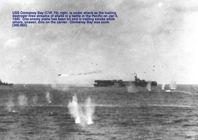 USS Ommaney Bay (CVE-79) (right) under attack.